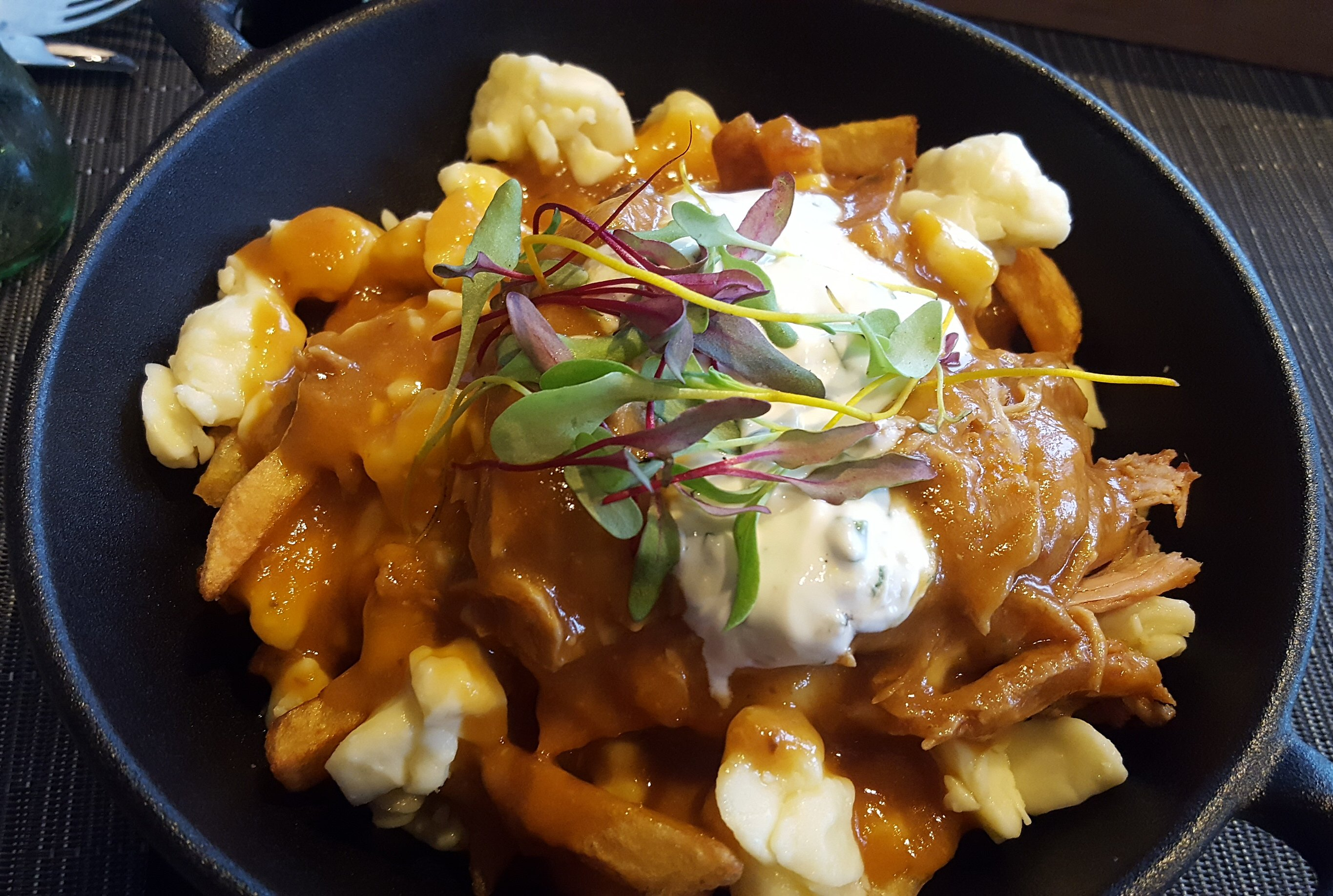 Poutine at Le Champlain in Quebec City, Quebec, Canada. French fries with smoked cheese, topped with BBQ pork, sour cream and herbs.